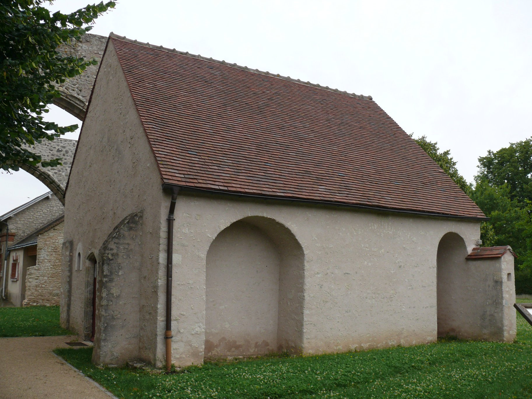 Saint-Hubert's chapel of Courcelles (Loiret, Centre, France).